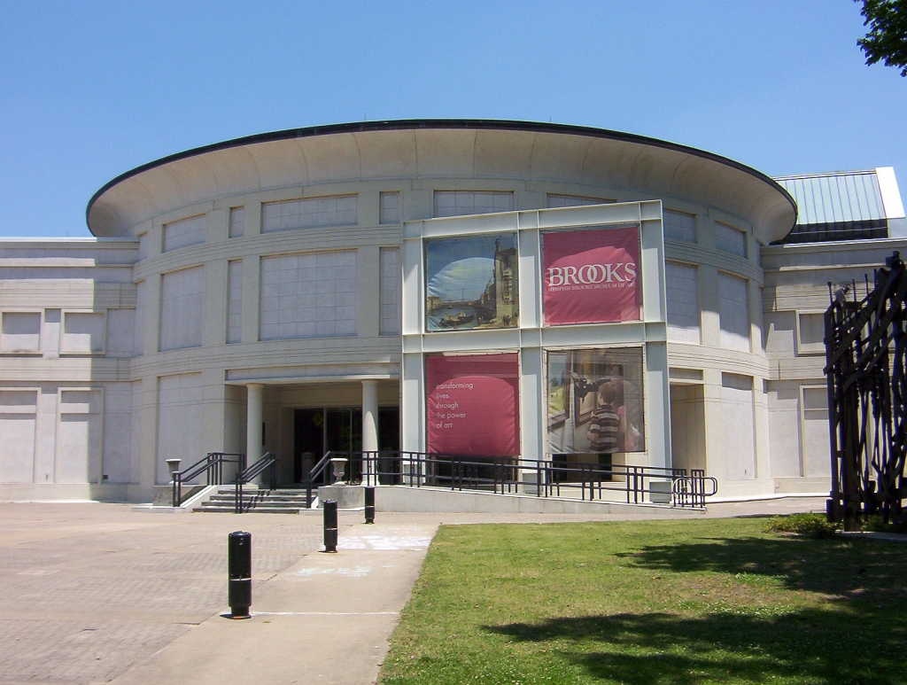 Memphis Brooks Museum of Art in Memphis, Tennessee